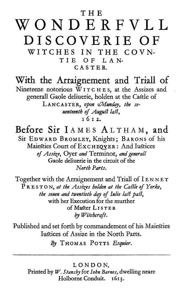 Title page of original edition of The Wonderfvll Discoverie of Witches in the Covntie of Lancaster by Thomas Potts (1613)